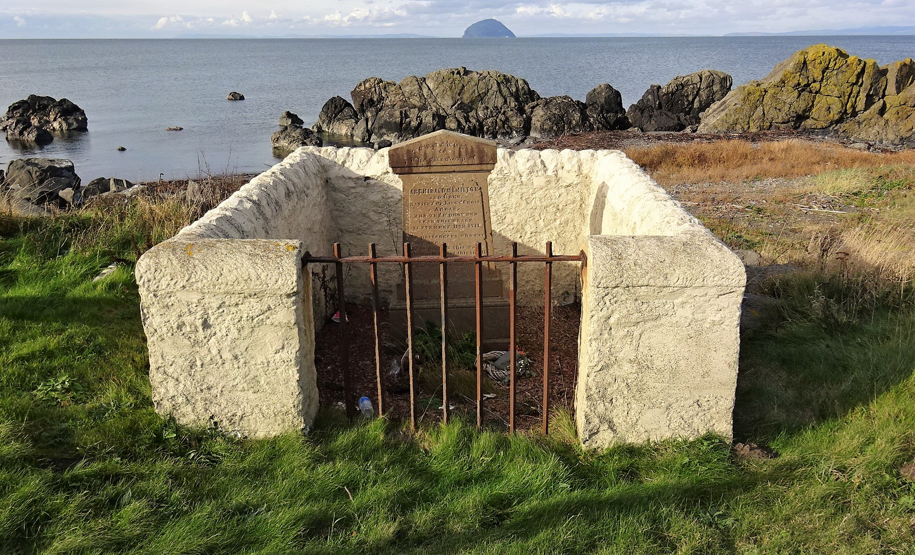 Archibald Hamilton and Crew Memorial 1717, Lendalfoot, South Ayrshire. Frontal view.